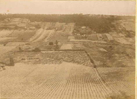 A photograph of Ceyzériat, a commune in France